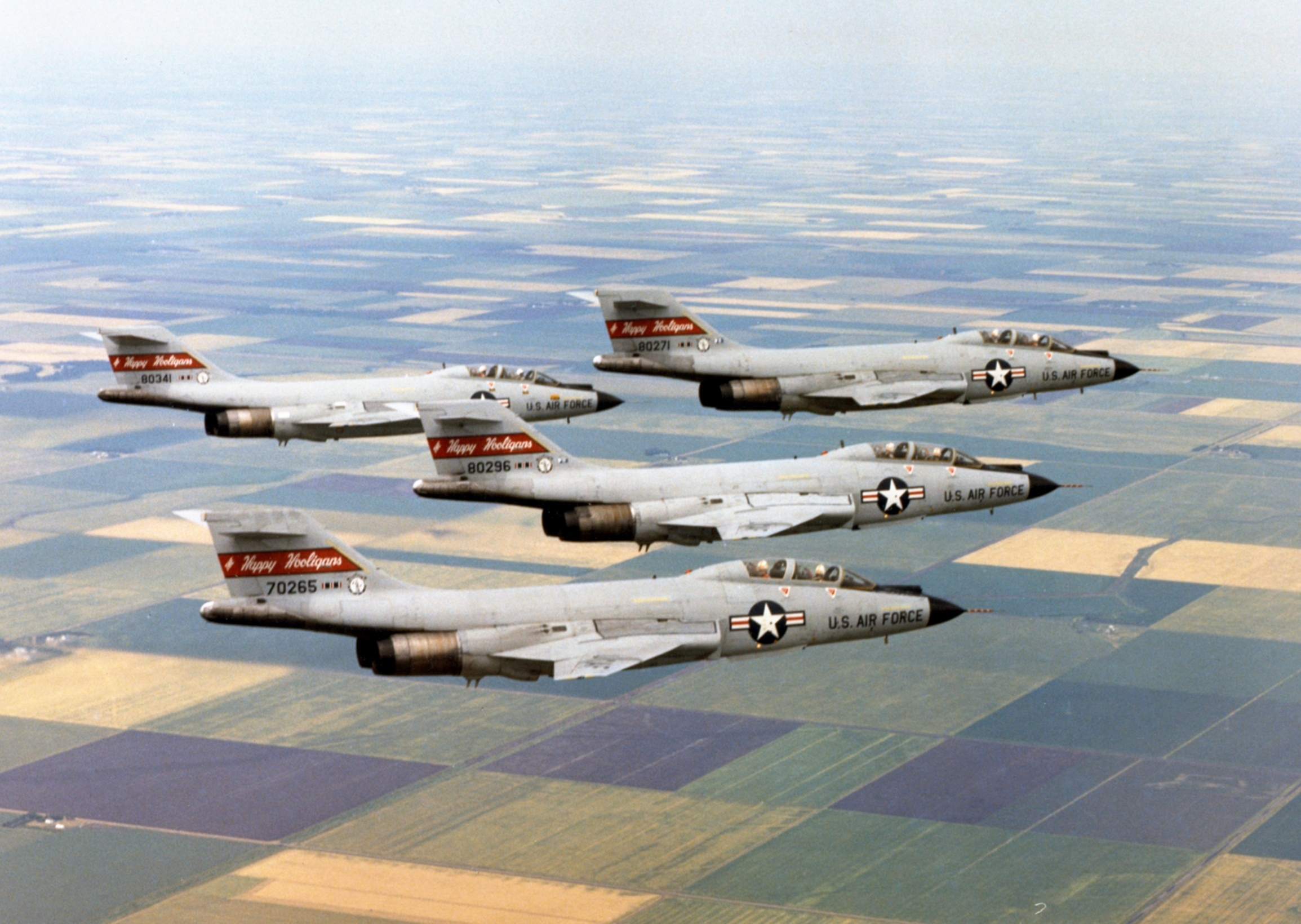 Four U.S. Air Force McDonnell F-101B Voodoo fighters from the 178th Fighter-Interceptor Squadron, 119th Fighter Group, North Dakota Air National Guard, in flight. The North Dakota Air National Guard flew the F-101 from 1969–1977.